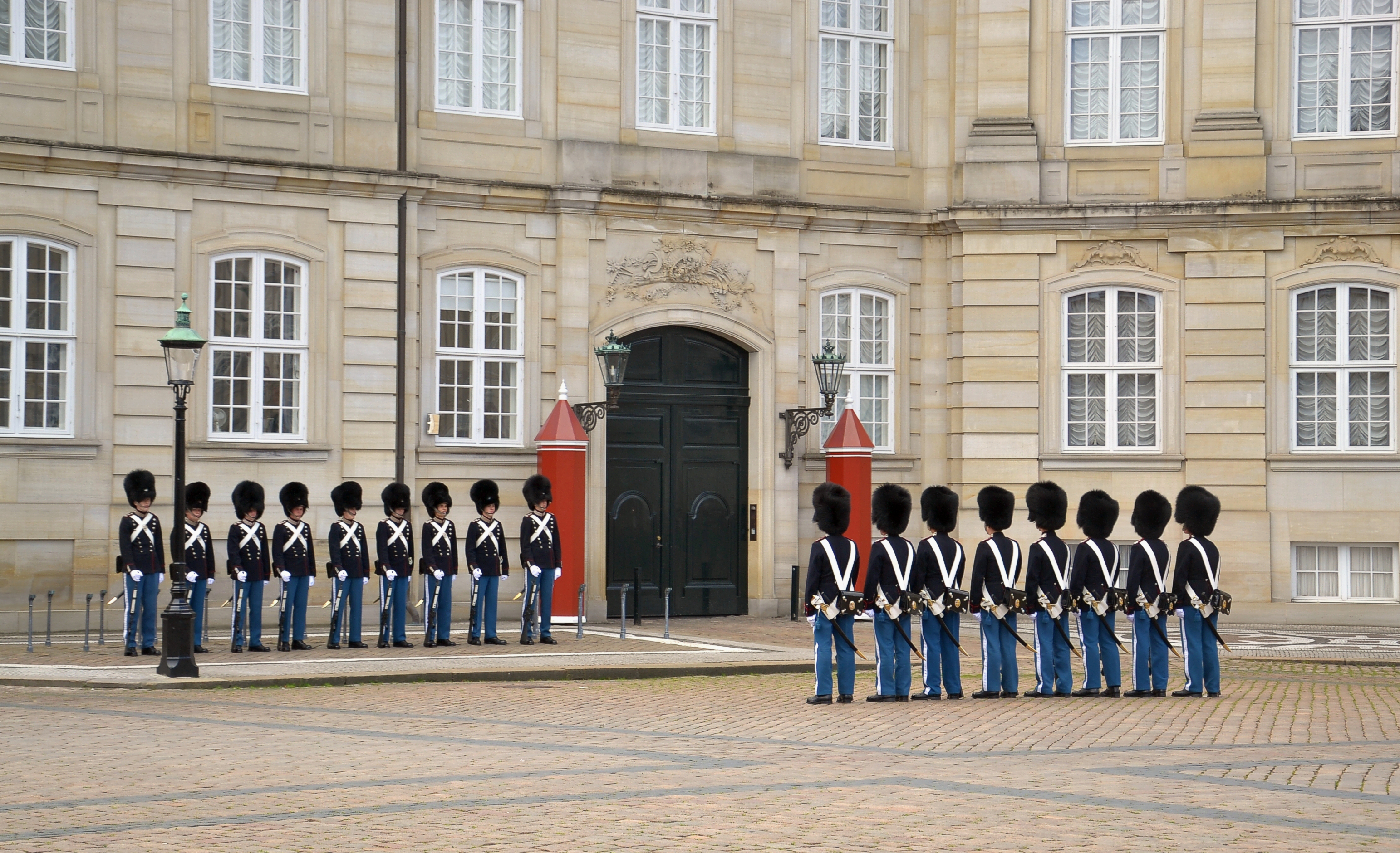 The Royal Life Guards (Den Kongelige Livgarde), Amalienborg Castle in Copenhagen, Denmark